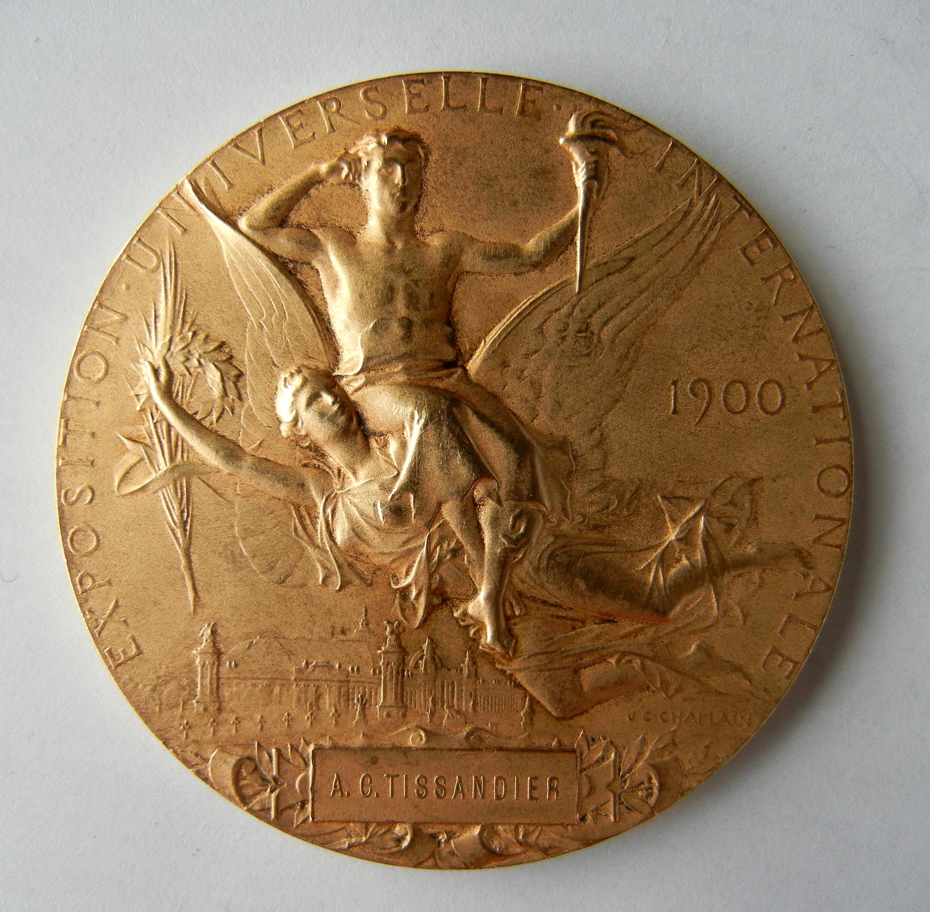 Medal French Republic. Exposition universelle 1900. Awarded to Albert Charles TISSANDIER (1839 - 1906) Engraver: Jules Clement CHAPLAIN (1839-1909) bronze Diameter 64 mm, weight 97 grams